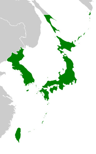 Map of Empire of Japan for stub template purposes